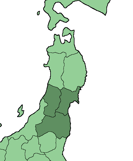 Southern Tohoku